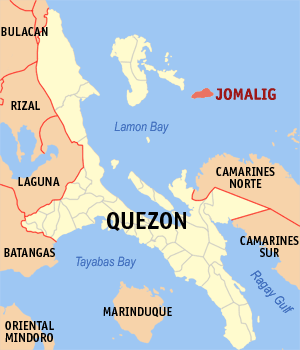 Map of Quezon showing the location of Jomalig